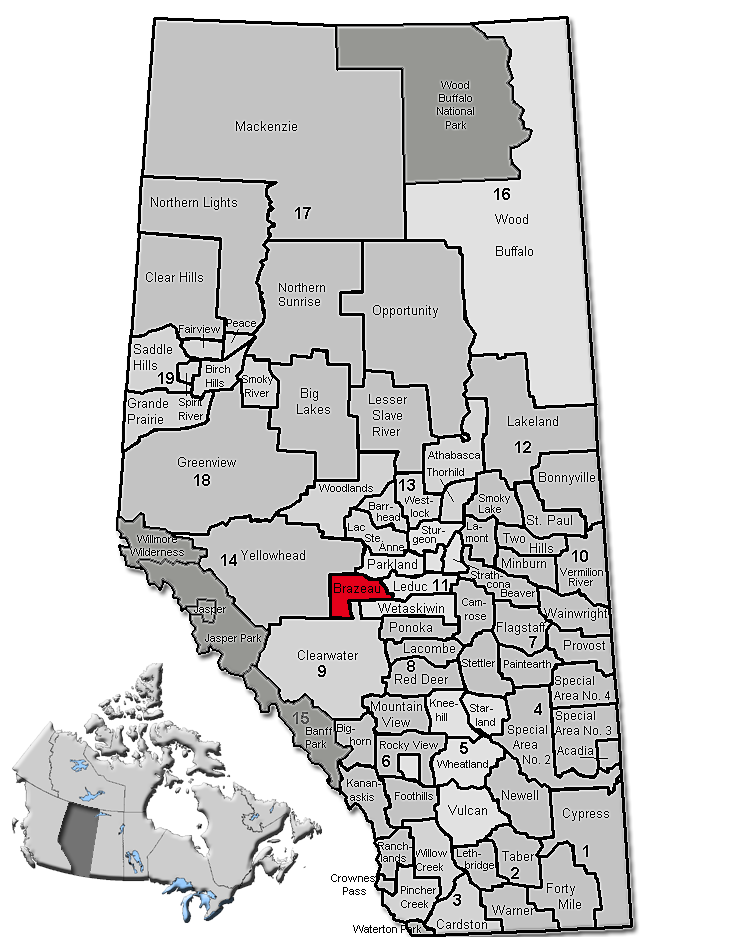 Municipal districts of Alberta, Brazeau County highlighted